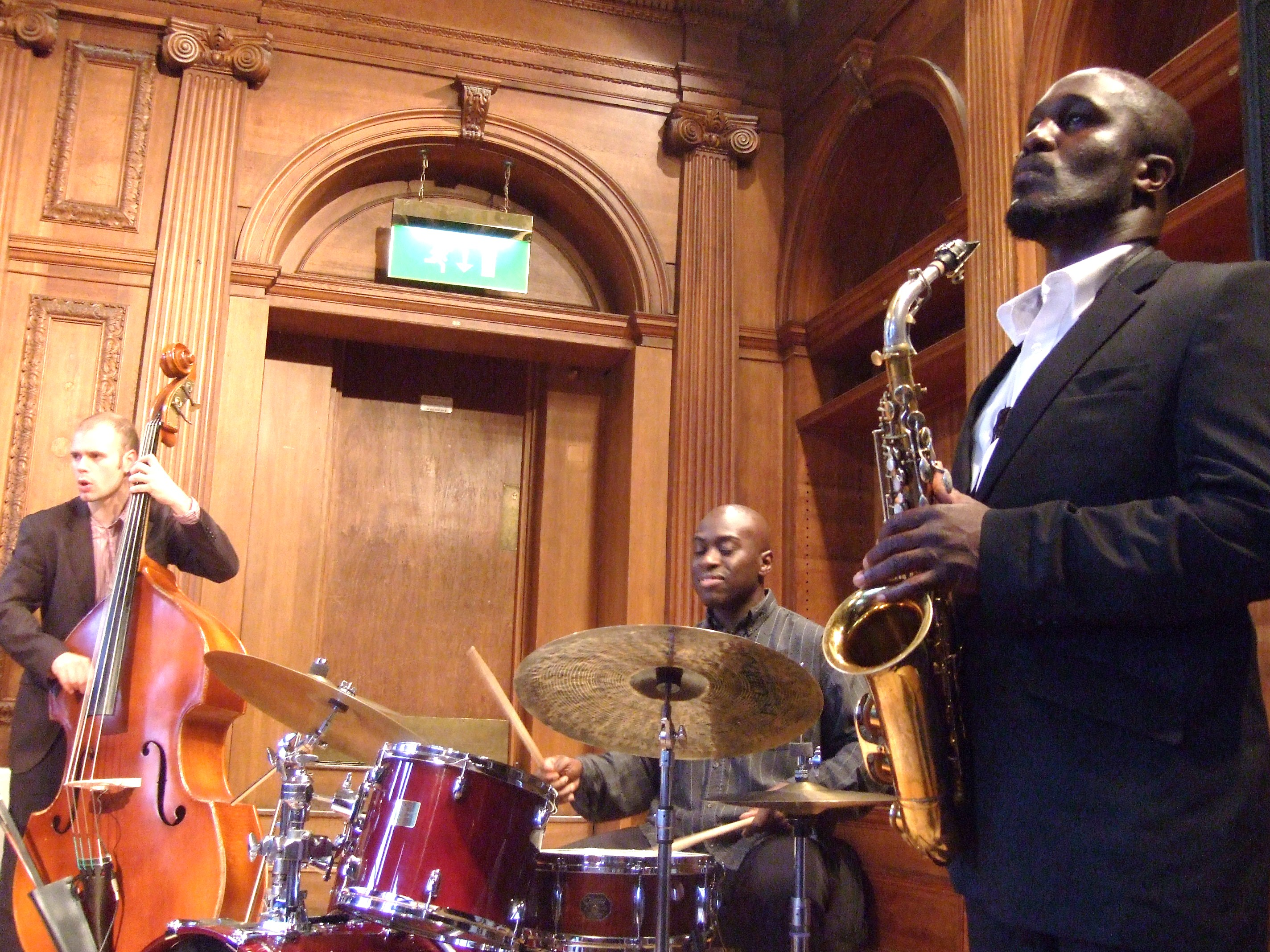 3 of the 4 members of the Tony Kofi Quartet. From left to right: Ben Hazleton (double bass), Winston Clifford (drums),and Tony Kofi (saxophone)